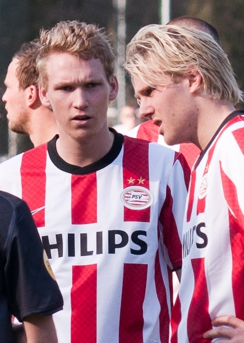 PSV's Stef Nijland and Ola Toivonen during a friendly match at the Herdgang, Eindhoven versus RKC Waalwijk (0-0) on 24 March 2011.